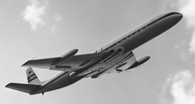 DH.106 Comet 3 G-ANLO in BOAC-style markings at Farnborough SBAC Show.